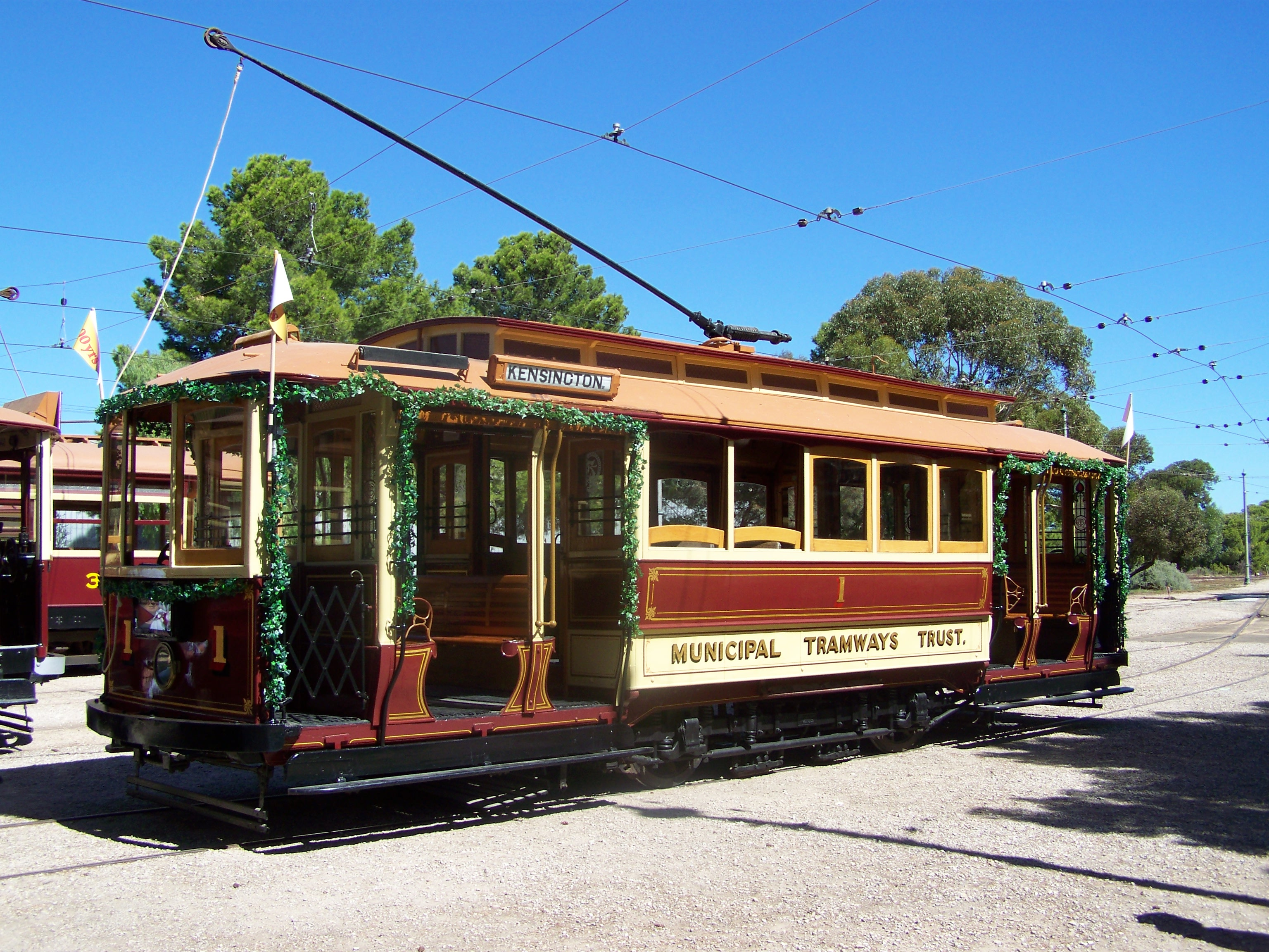 Adelaide's first electric tram, A type number 1, as restored to its original 1909 condition at the St Kilda tramway museum. The tram is taking part in celebrations held at the museum to commemorate the 100th anniversary of the opening of the Adelaide tram system in March 1909.